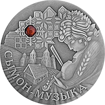 Belarus and the global community. Commemorative Coin "Symon the Musician"("Simon-musician")